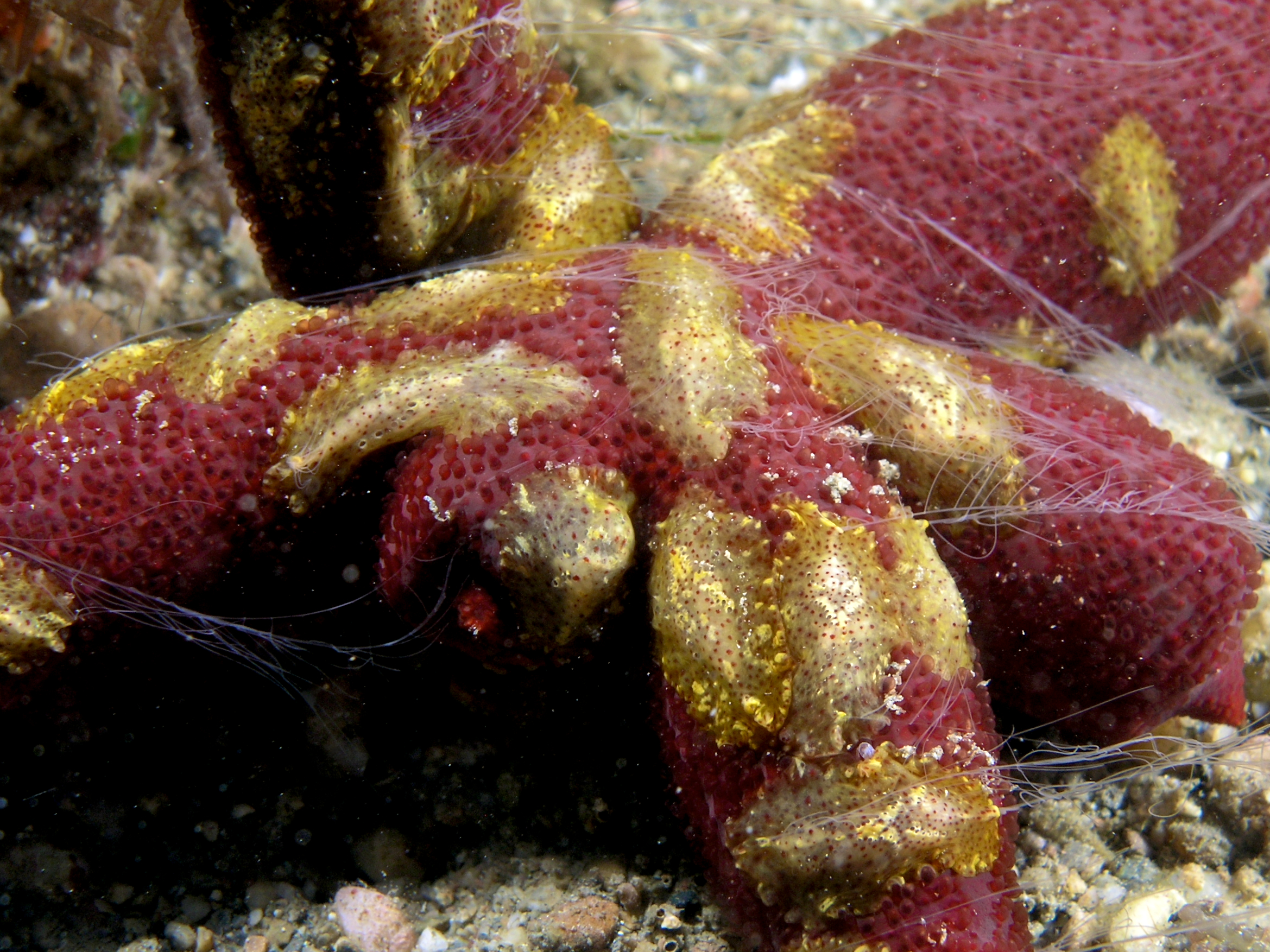 Coeloplana astericola (Benthic ctenophores) on Echinaster luzonicus (Seastar)